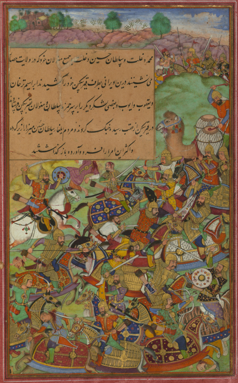 Illustrations from the Manuscript of Baburnama (Memoirs of Babur) - Late 16th Century Bāburnāma is the memoirs of Ẓahīr ud-Dīn Muḥammad Bābur (1483-1530), founder of the Mughal Empire and a great-great-great-grandson of Timur. It is an autobiographical work, originally written in the Chagatai language, known to Babur as "Turki" (meaning Turkic), the spoken language of the Andijan-Timurids. Because of Babur's cultural origin, his prose is highly Persianized in its sentence structure, morphology, and vocabulary,and also contains many phrases and smaller poems in Persian. During Emperor Akbar's reign, the work was completely translated to Persian by a Mughal courtier, Abdul Rahīm, in AH (Hijri) 998 (1589-90). These Paintings, being a fragment of a dispersed copy, was executed most probably in the late 10th AH /16th CE century. It contains 30 mostly full-page miniatures in fine Mughal style by at least two different artists. Another major fragment of this work (57 folios) is in the State Museum of Eastern Cultures, Moscow.